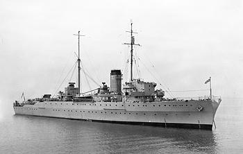 HMS PROTECTOR at anchor